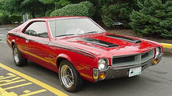 1968 Javelin (base model) a "pony car" built by American Motors Corporation (AMC). This two-door hardtop is finished in "Matador Red" (paint code: P39A) with optional black bodyside stripes. The "Magnum 500" wheels are correct for 1968: full chrome (without a trim ring). This car also has AMC's optional for 1969 "mod" twin fiberglass, non-functional hood scoops. Picture taken at the 2003 AMC Rambler Club (AMCRC) show that was held in Somerset, New Jersey.